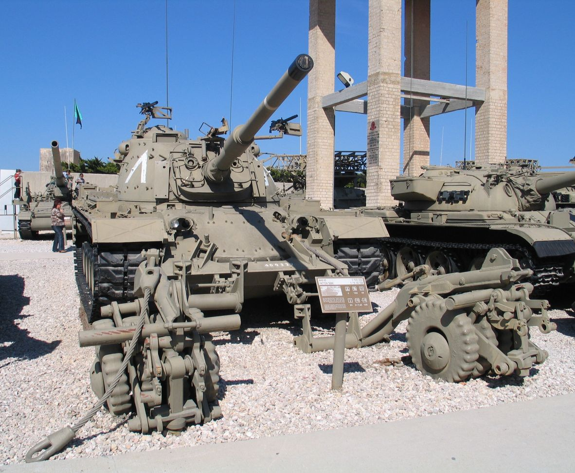 Description: M48A5 Patton MBT with a mine-clearing device in Yad la-Shiryon Museum, Israel. Source: Photo by me, User:Bukvoed.